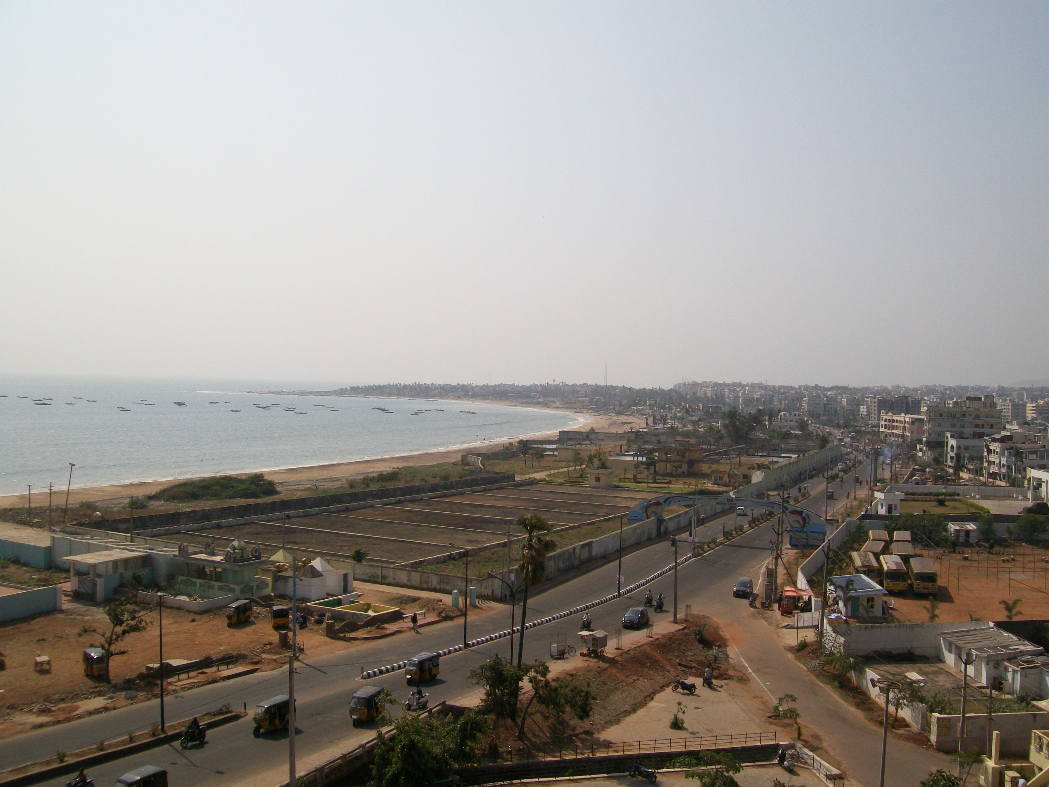 Vishakhapatnam city from Kailasgiri hill